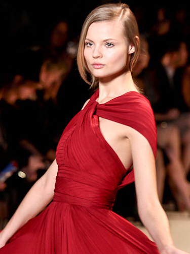 Photographed by Simon Ackerman at Elie Saab, Paris Fashion Week Fall 2011